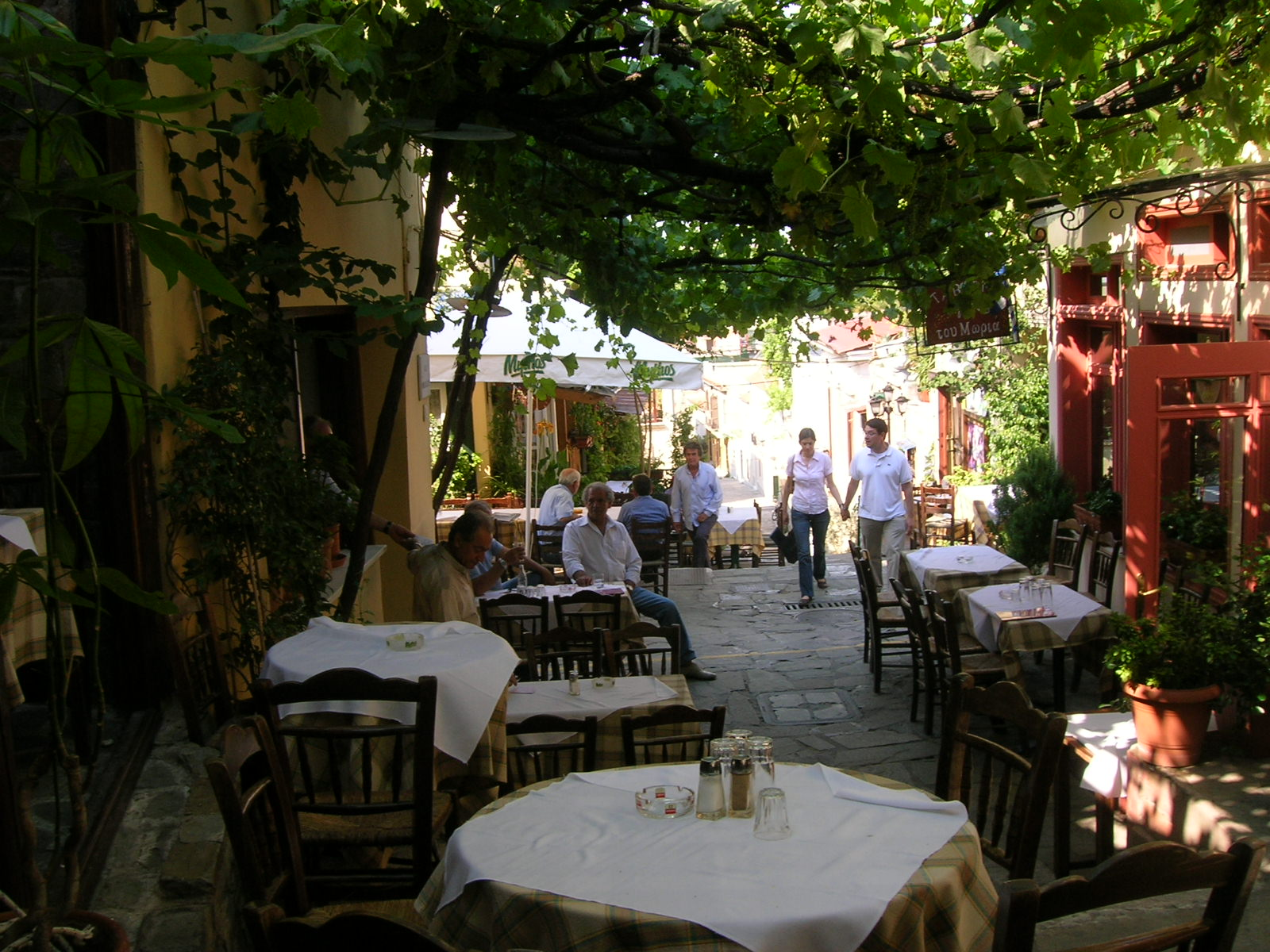 Streetview from the Plaka beneath the Acropolis in Athens, Greece